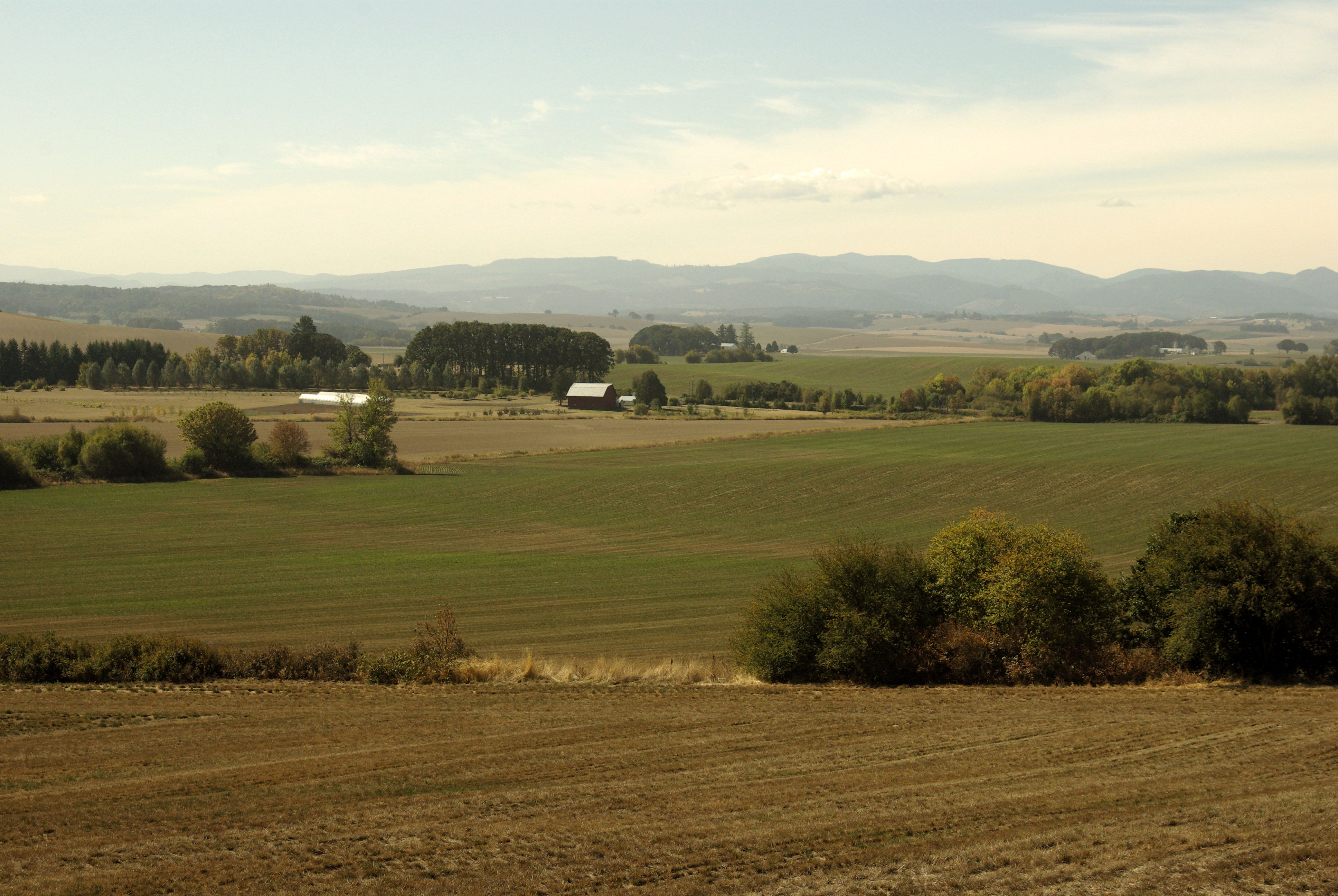 Fall view of the Willamette Valley, in Northern Polk County, Oregon, near Bethel